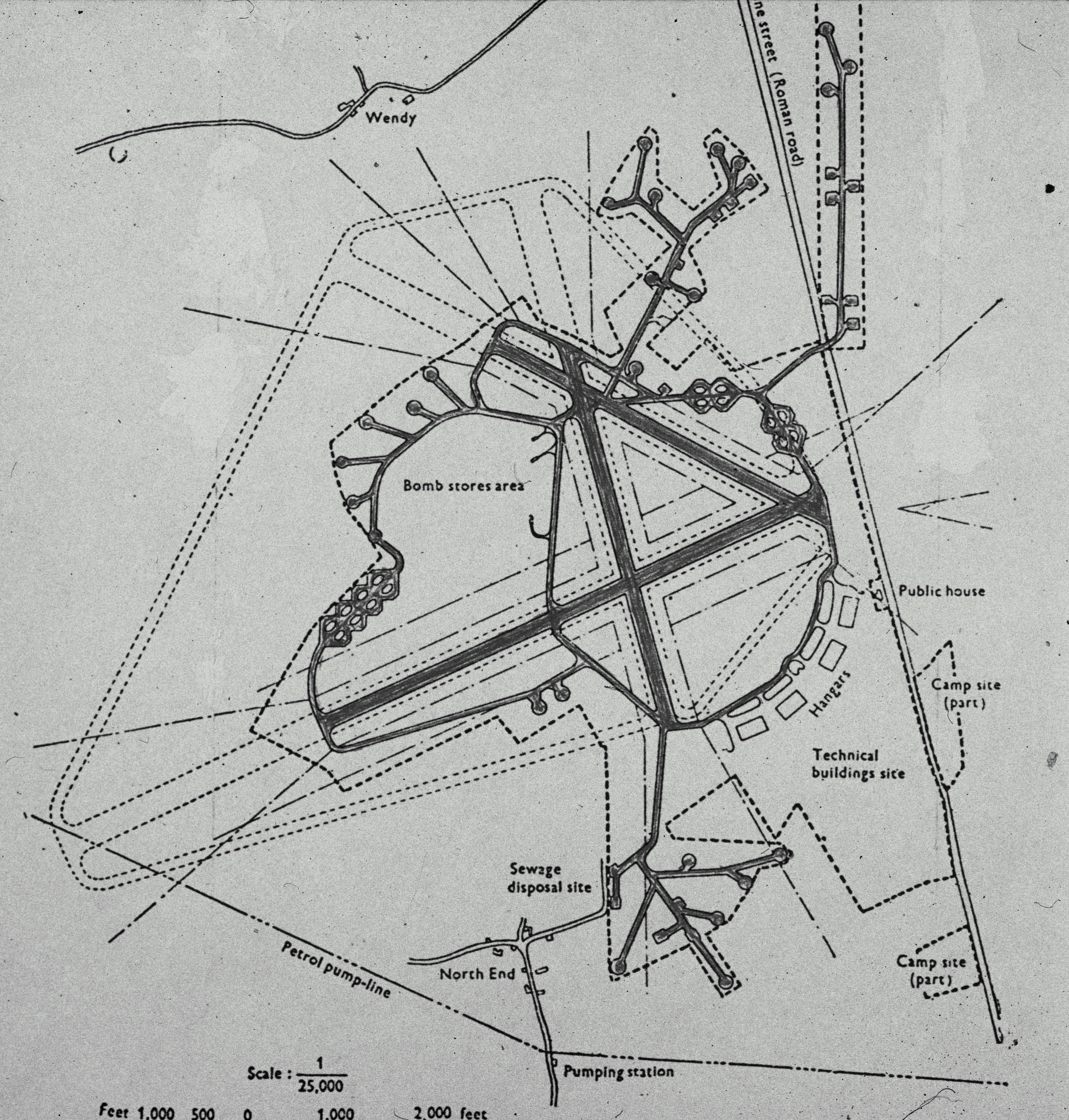 RAF Bassingbourn - Site Map 2